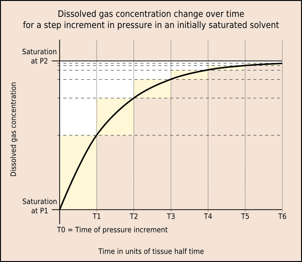 Dissolved gas concentration change over time for a step increment in pressure in an initially saturated solvent